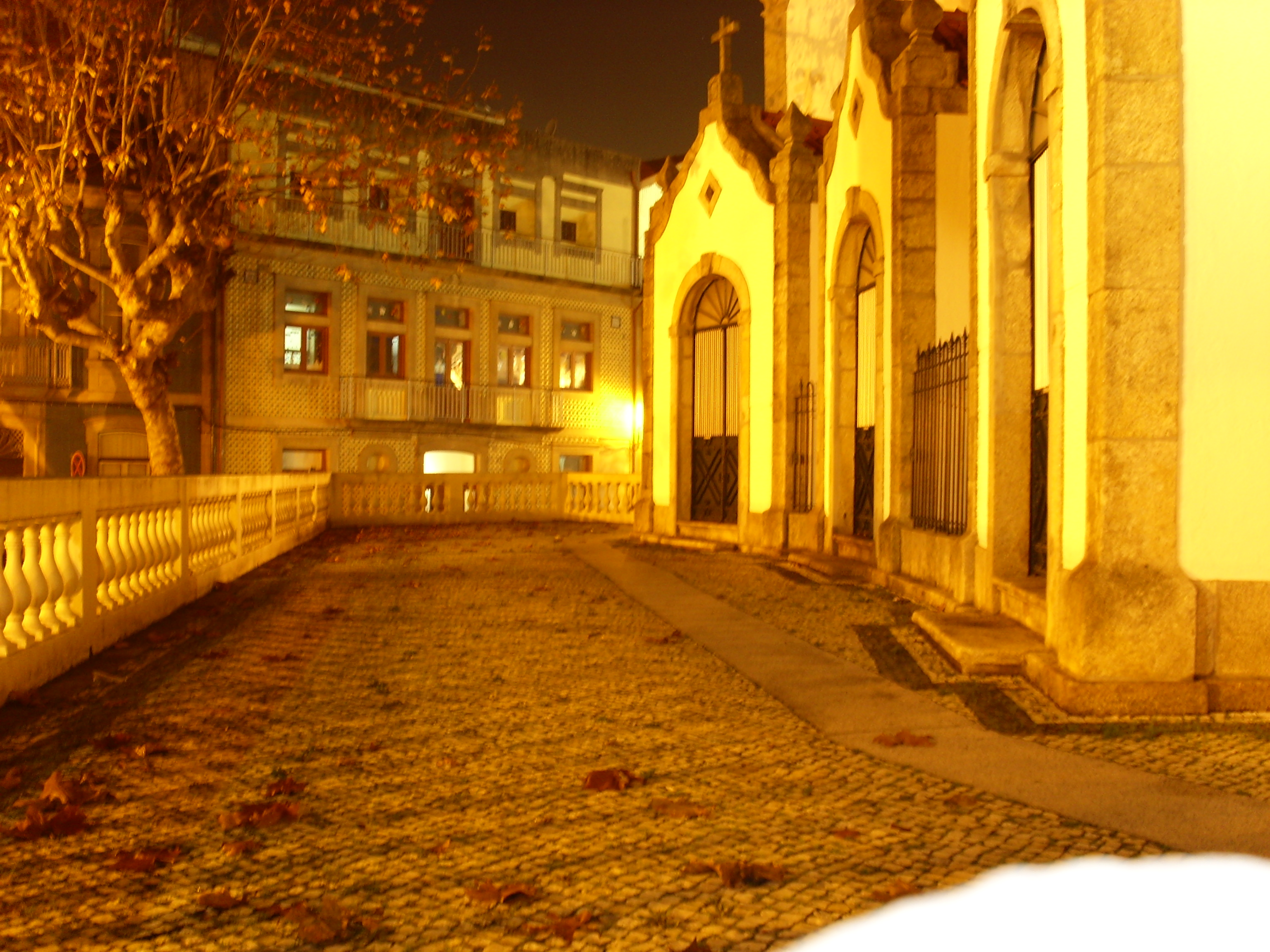 three of the six chapels of Senhora das Dores Church in Póvoa de Varzim, Portugal